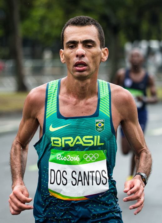 Men's marathon at the 2016 Summer Olympics